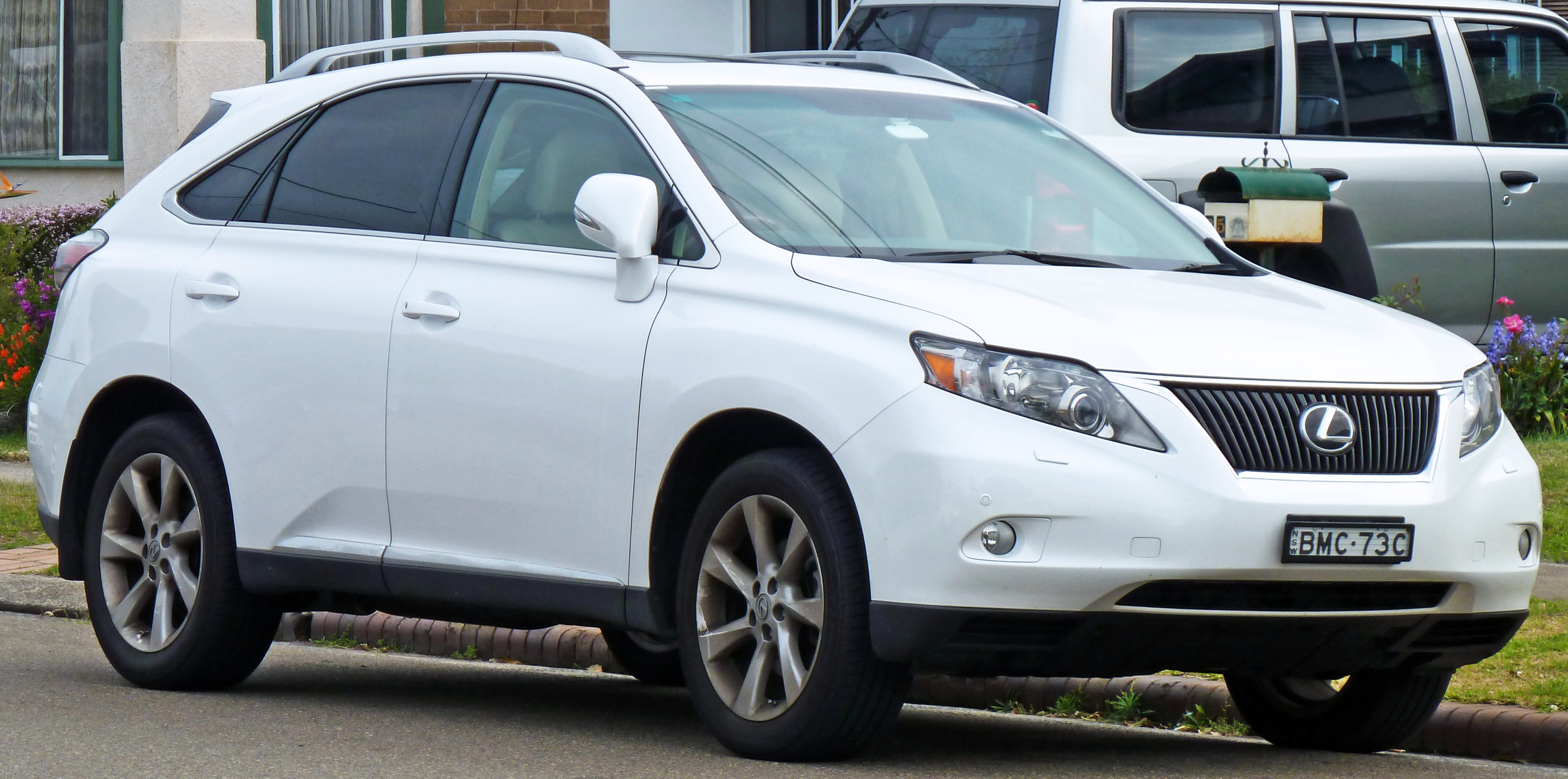 2009–2010 Lexus RX 350 (GGL15R) Sports Luxury wagon. Photographed in Sans Souci, New South Wales, Australia.